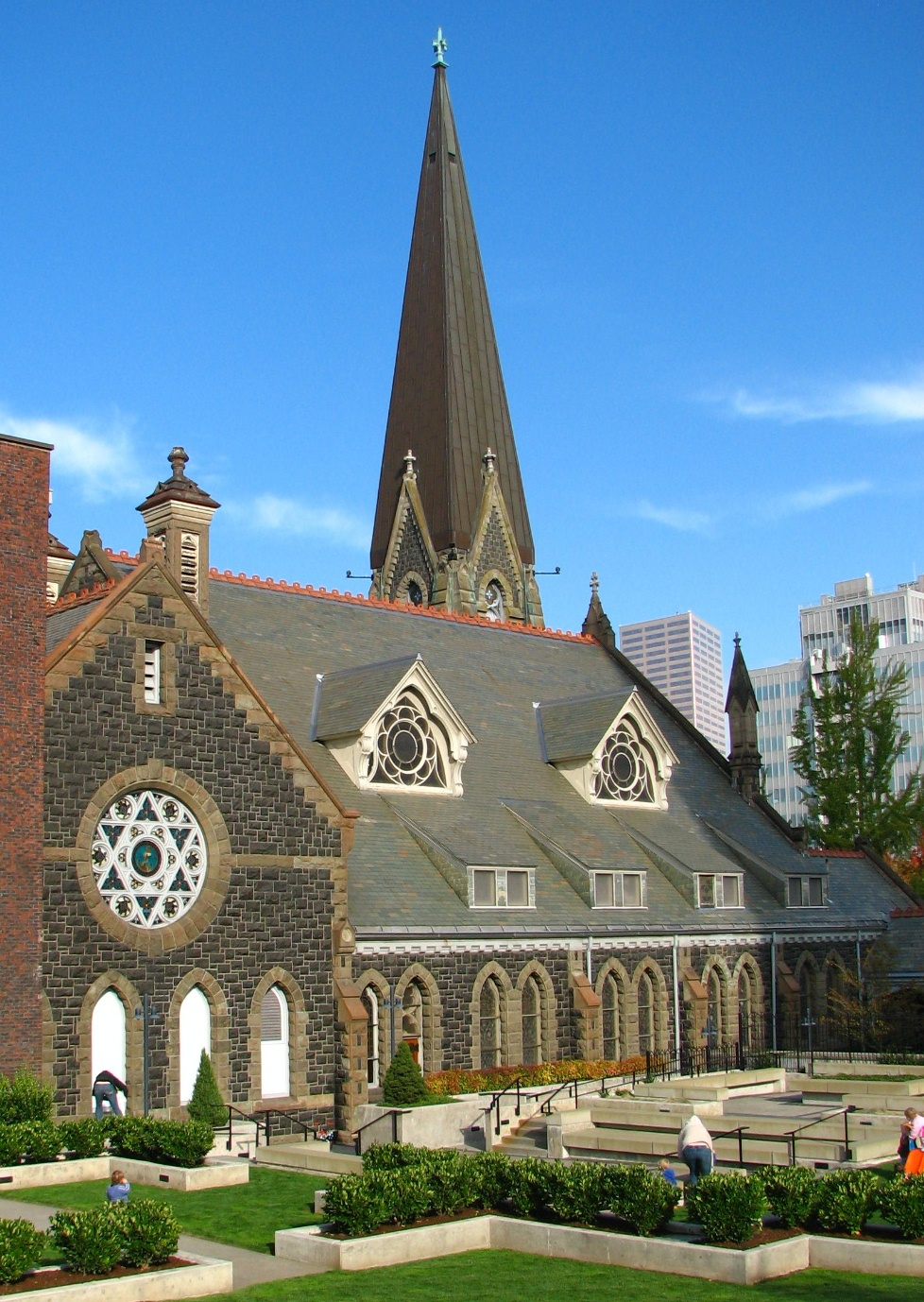 The historic First Presbyterian Church of Portland (built 1886–1890), located at 1200 Southwest Alder Street in Portland, Oregon, United States, is listed on the US National Register of Historic Places.